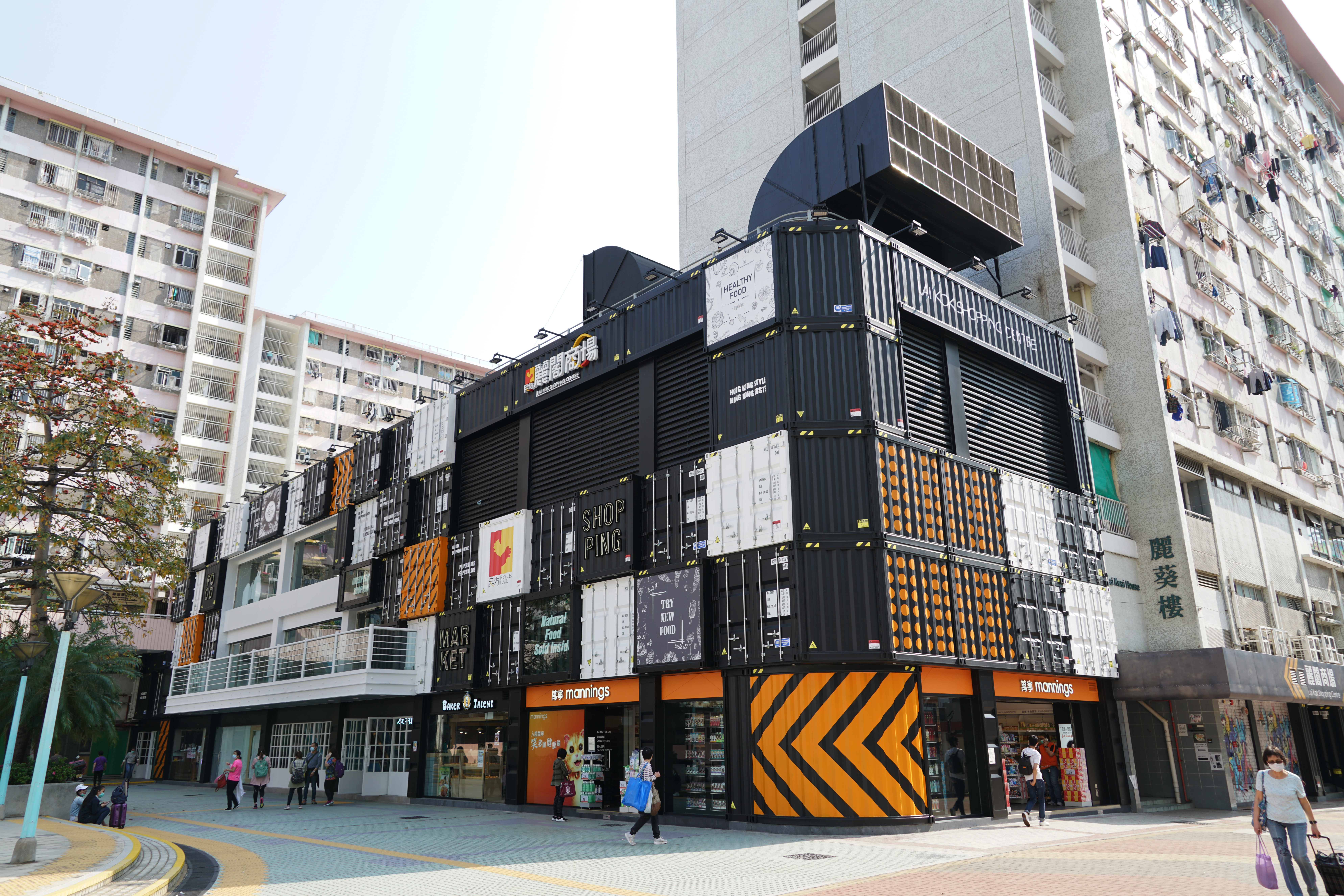 Lai Kok Shopping Centre, Hong Kong.